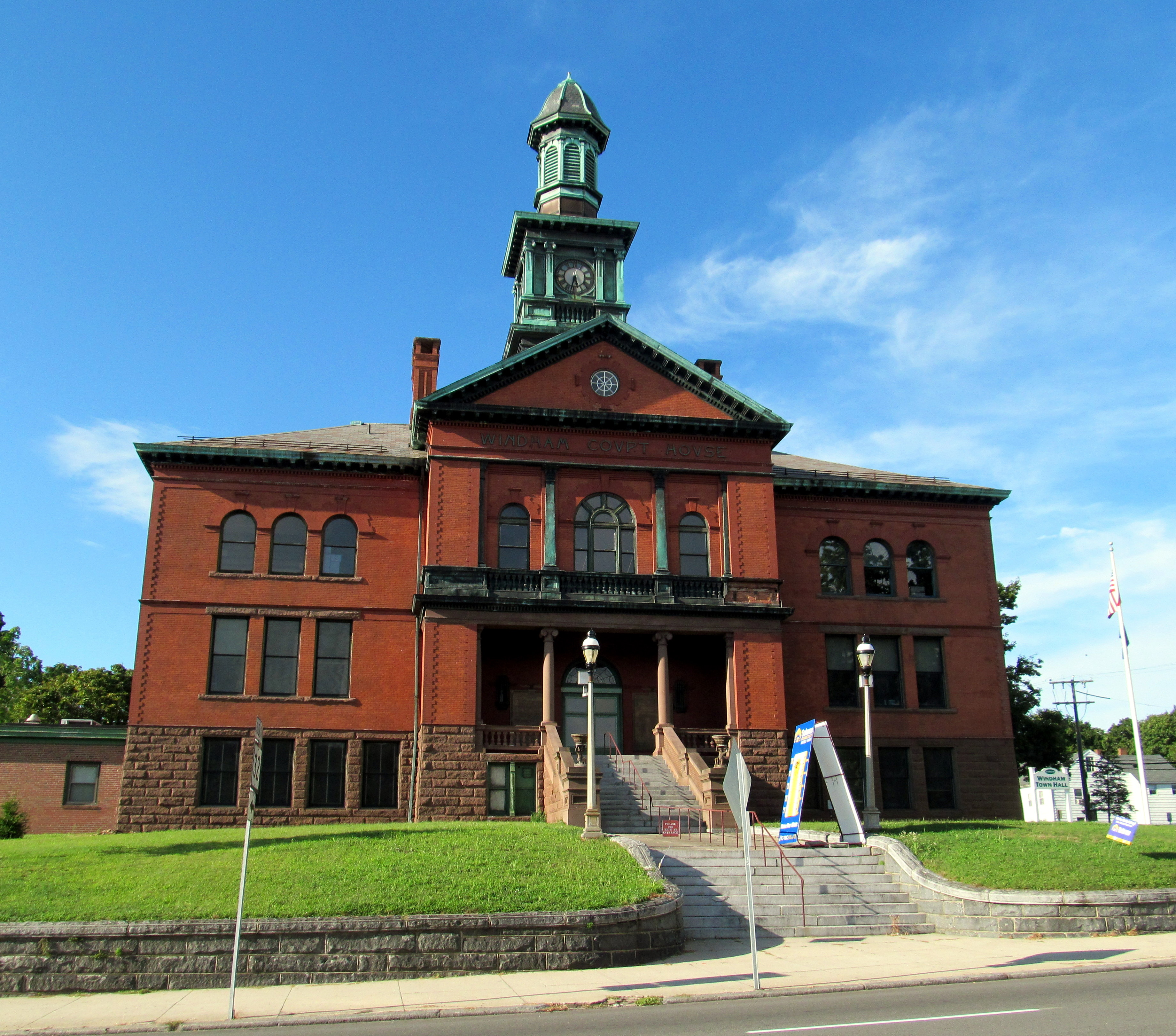 Willimantic Town Hall, Main Street, Willimantic, Connecticut